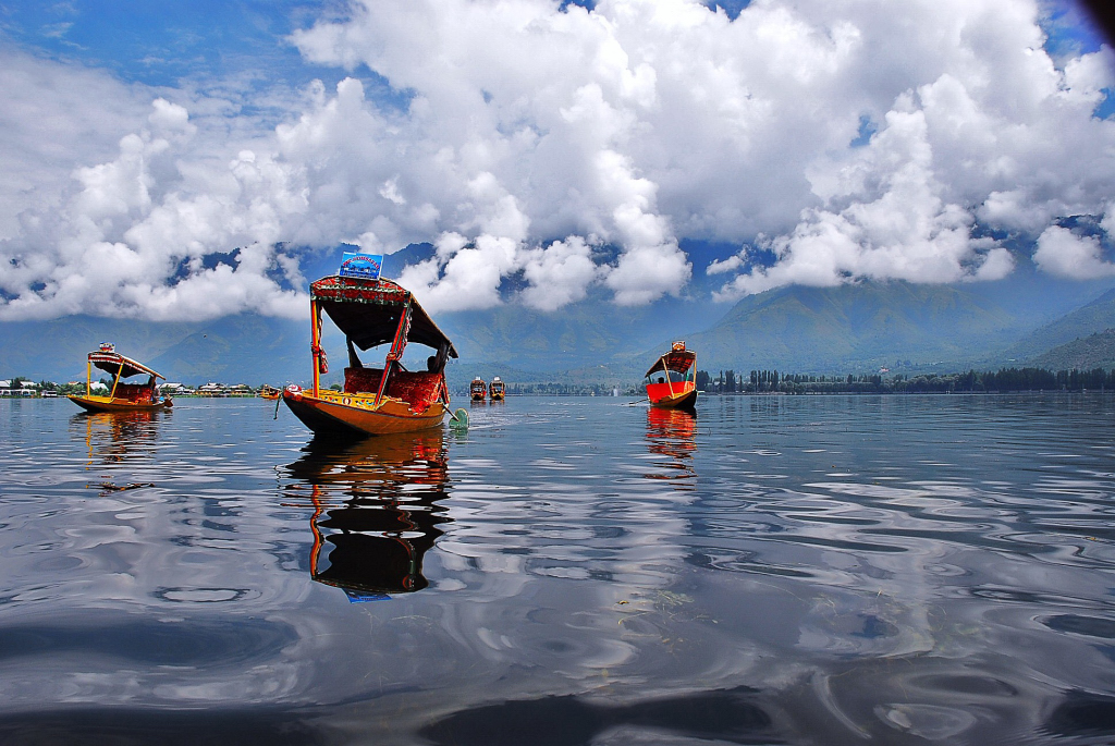 Dal Lake and the shikaras.